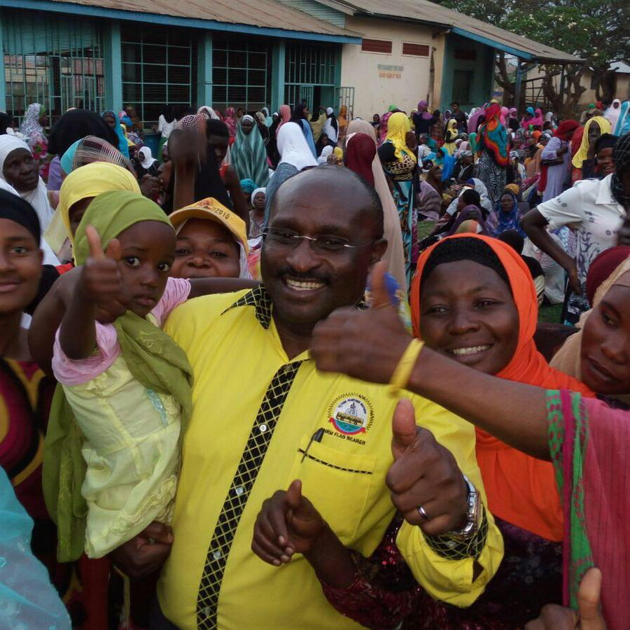 Simon Mulongo at an NRM campaign event in 2016